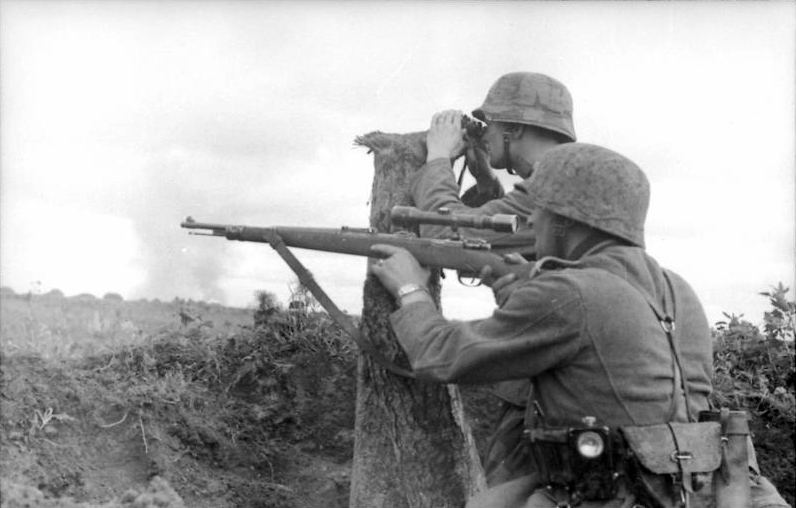 Voronezh, Soviet Union, 1942. A German sniper and spotter in position, observing at Voronezh.